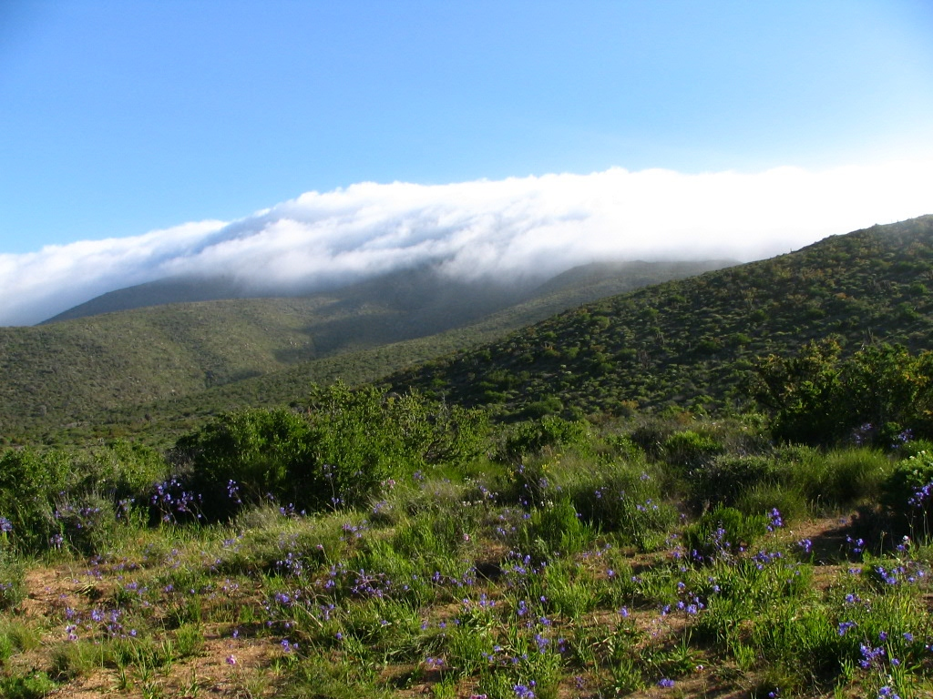 The cloud forest at the "Fray Jorge"-forest, Región de Coquimbo, Chile